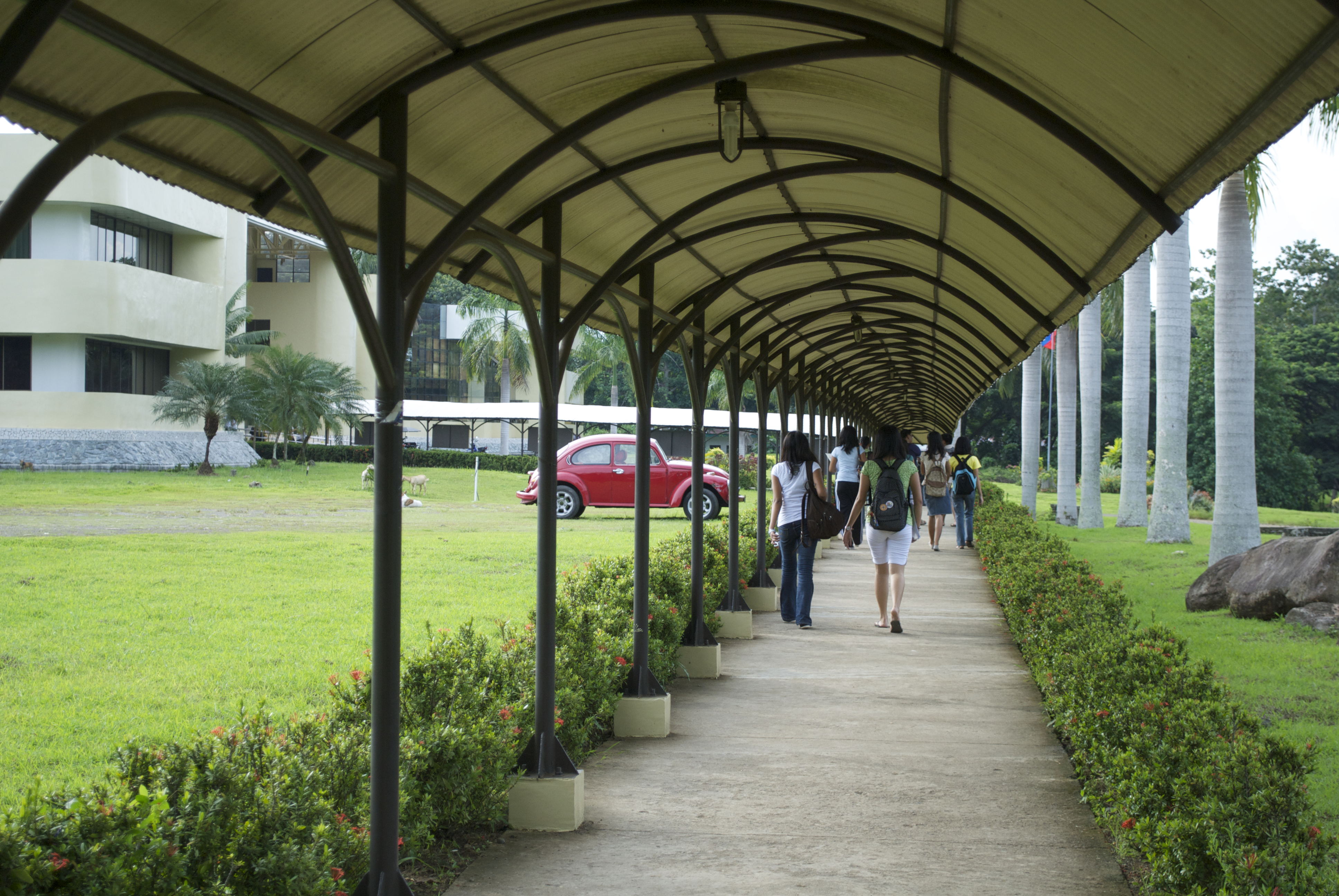 Pathwalk leading to the Administration Building, UP Mindanao.